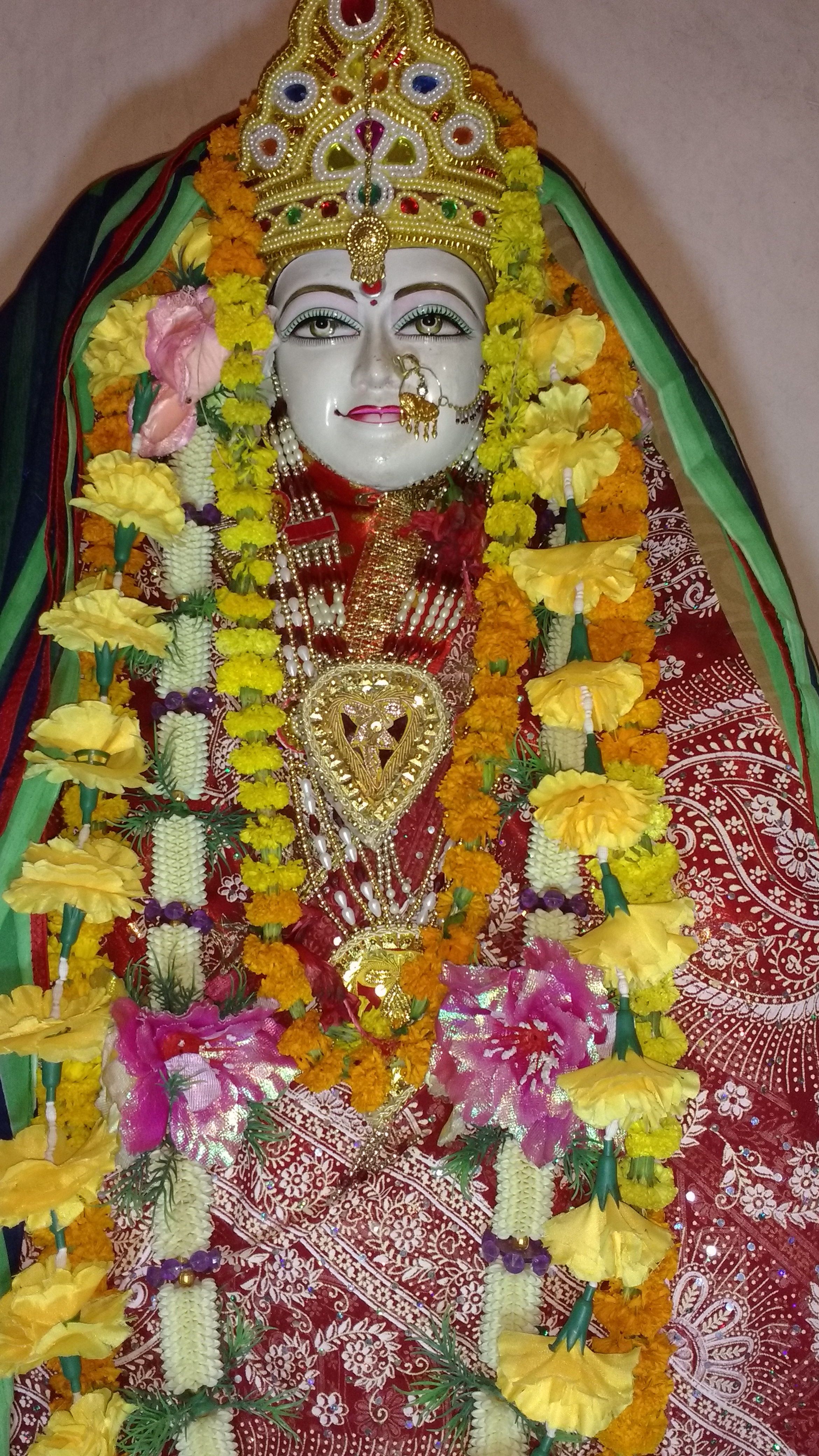 This temple built by Pt. Kailashnath R. Dubey, leaves in Makara goan located at near tilochan mahadev teple, Jaunpur.